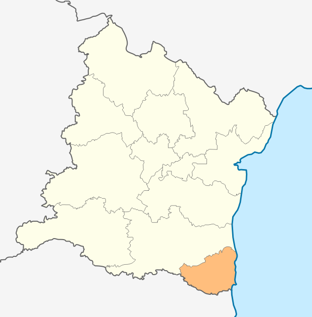 Map of Byala municipality, Varna Province